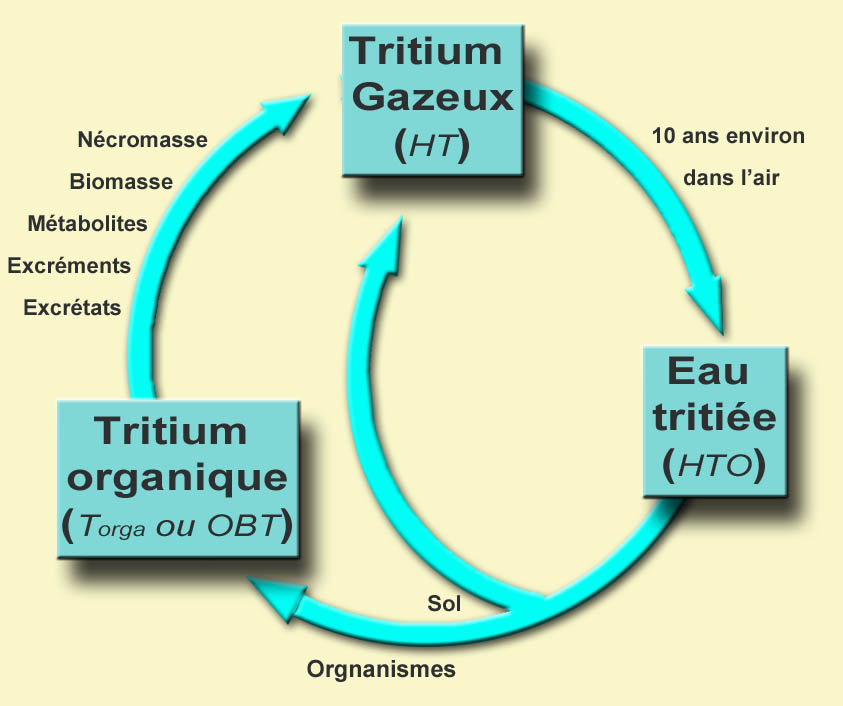 environmental cycle of tritium (in french)